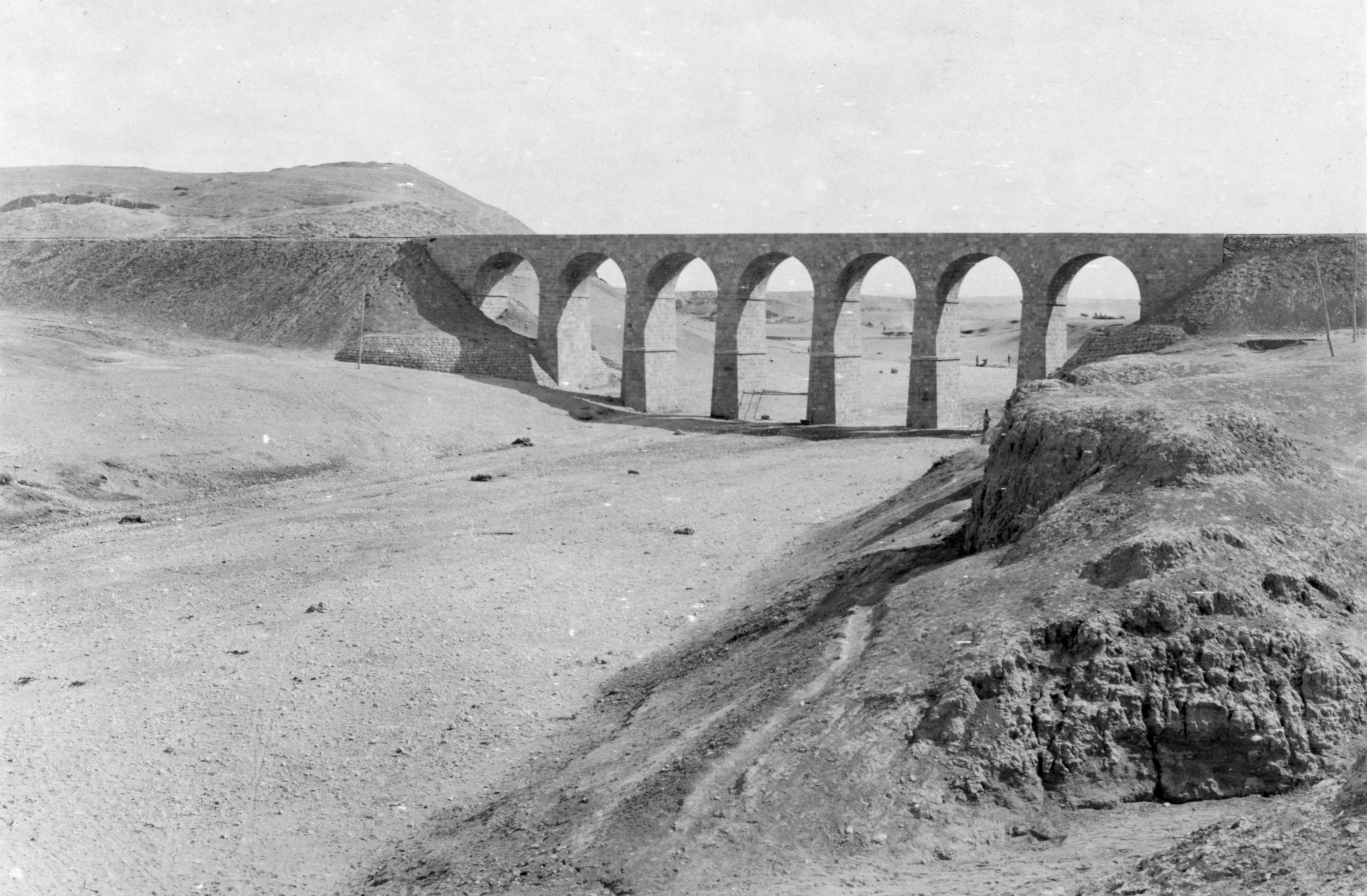 The Turkish railway bridge at Tell-el-Sheria on the line to Be'er Sheva, in 1917.